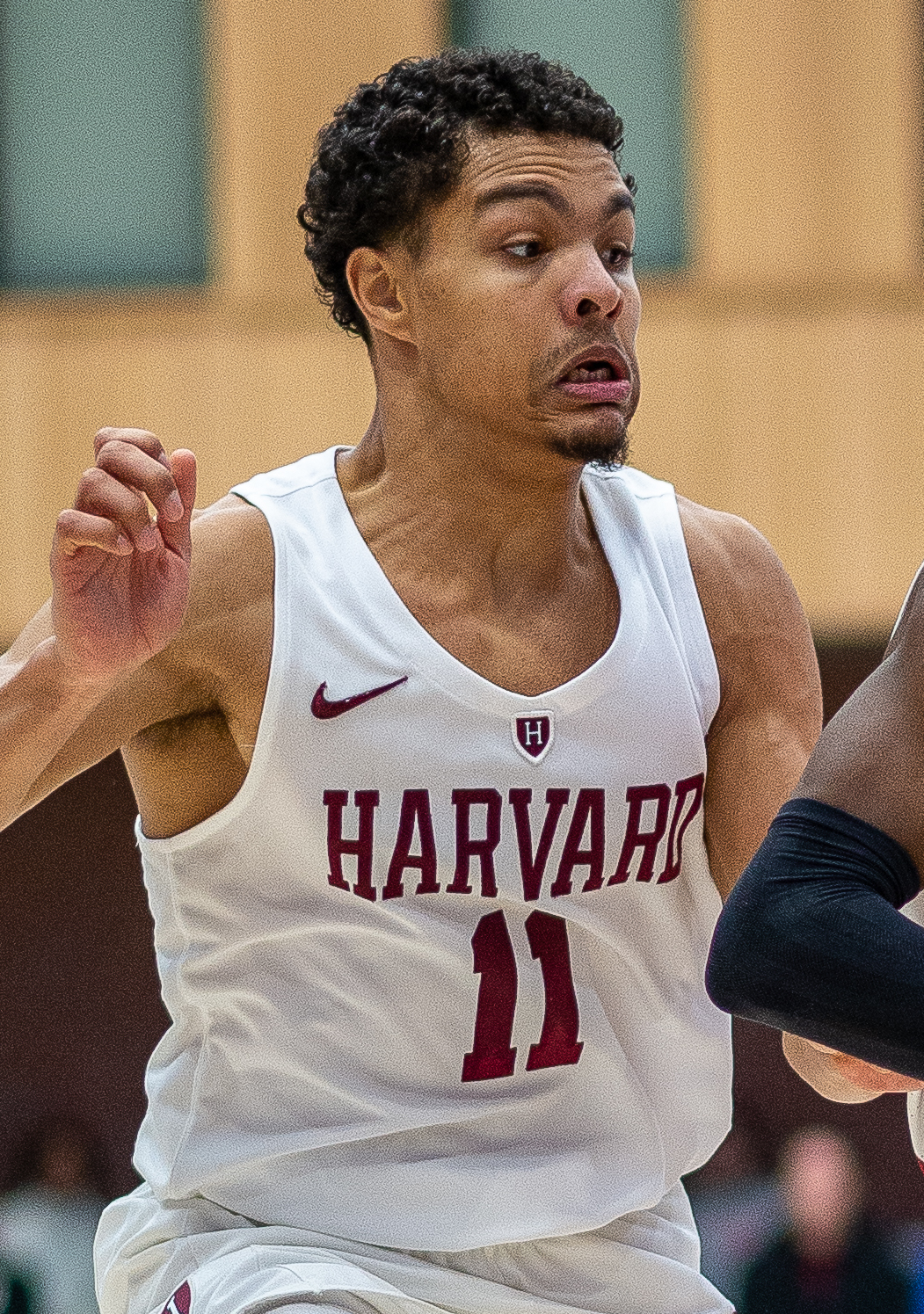 The University of Massachusetts men's basketball team lost to Harvard Crimson at the Lavietes Pavilion with a final score of 55-89 on Dec. 7. Photo by Parker Peters